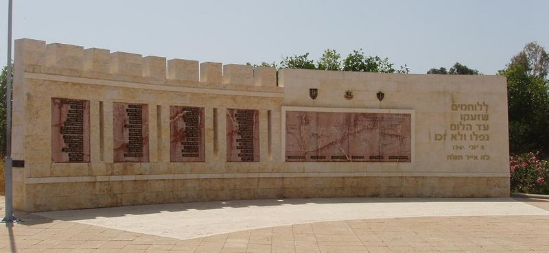 monument of idf soldiers at Ad halom bridge, near the city of Ashdod, Israel.